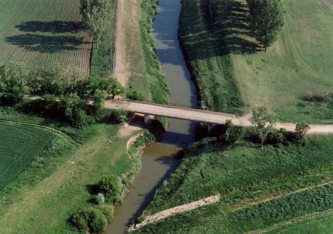 Pincehely, Hungary, aerialphotography